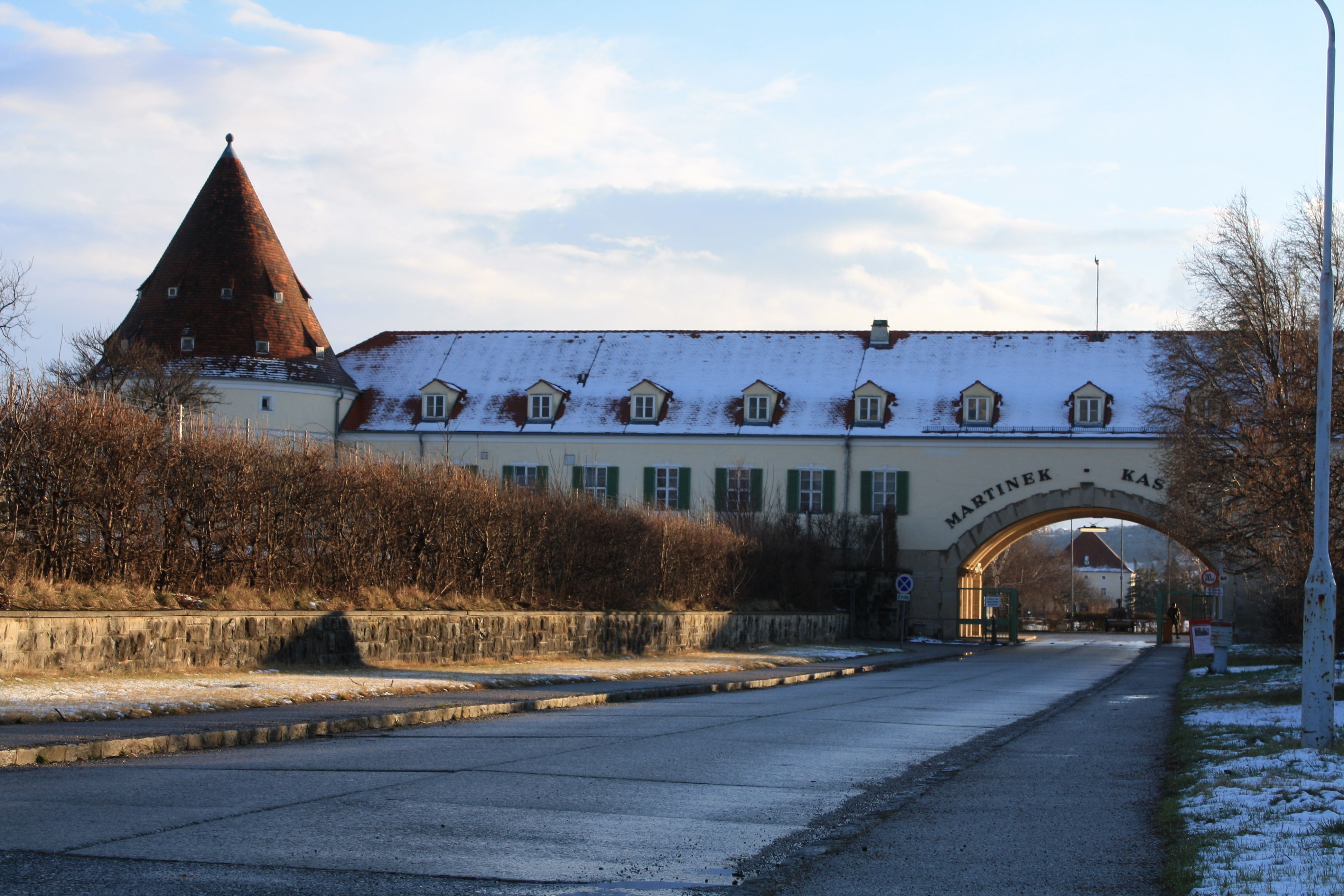 Military barack (Martinek) in Baden Lower Austria